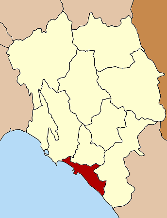 Map of Chanthaburi province, Thailand, highlighting Amphoe Laem Sing.